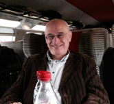 Thierry Pfister, en avril 2015